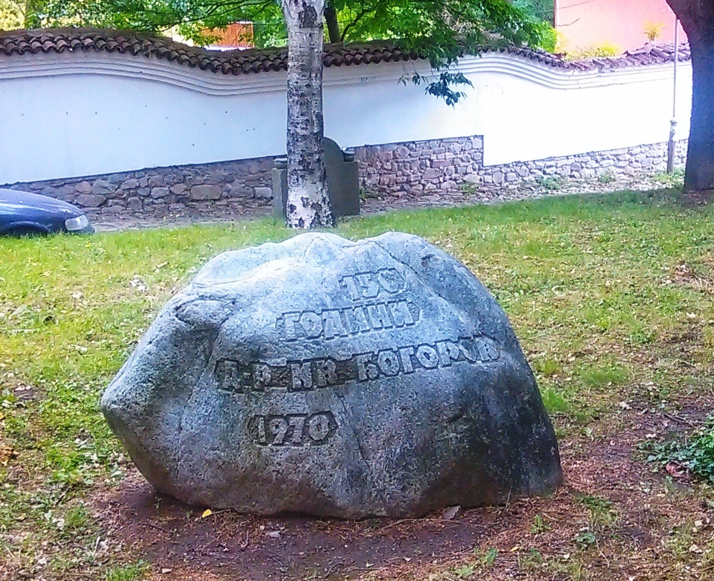 Ivan Bogorov memorial in Karlovo